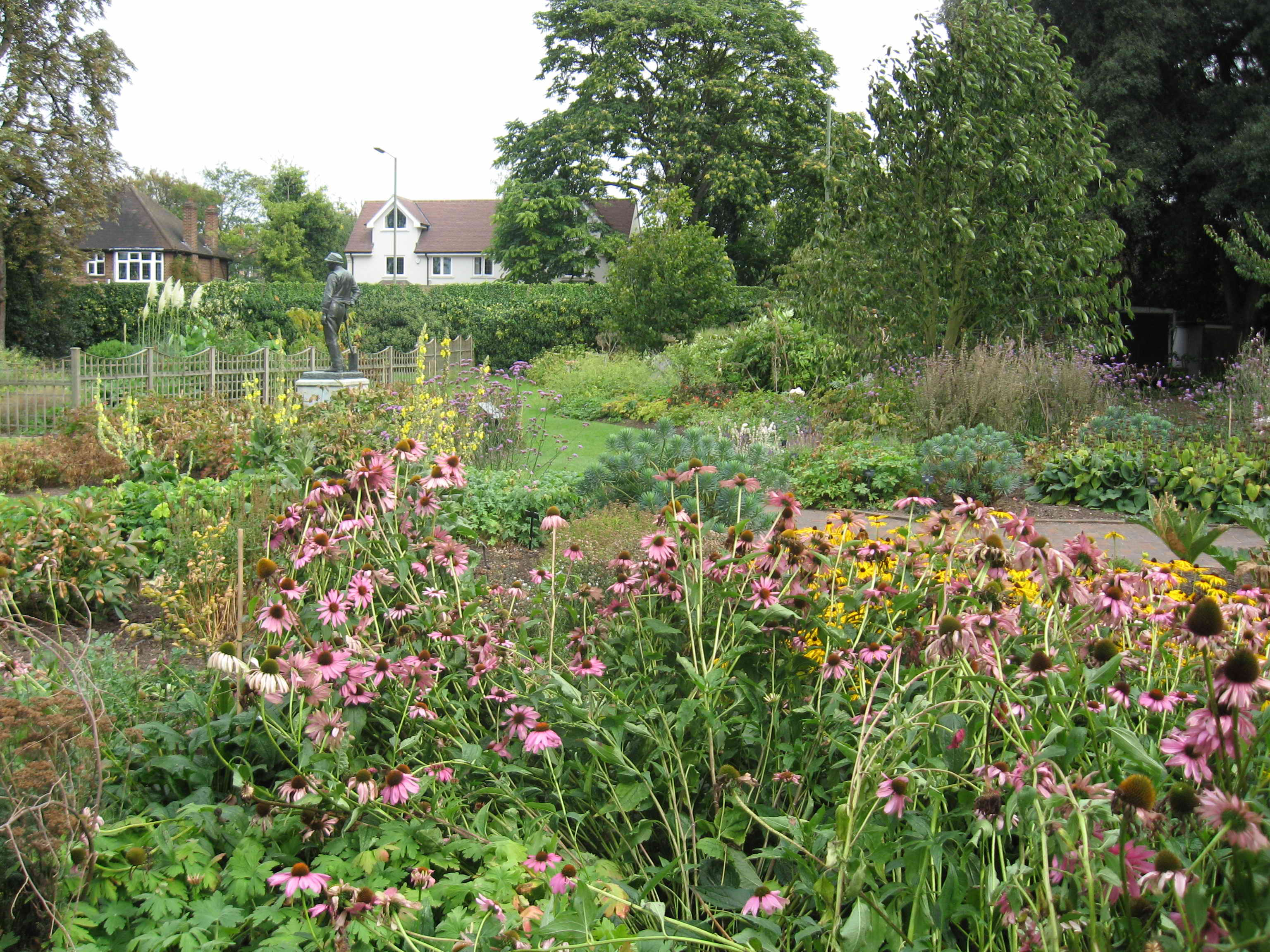 Kew Flower-beds